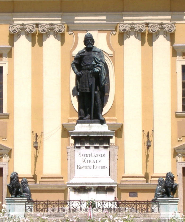 Statue of Saint Laszlo, Oradea, Nagyvárad, work of István Tóth (1861-1934)